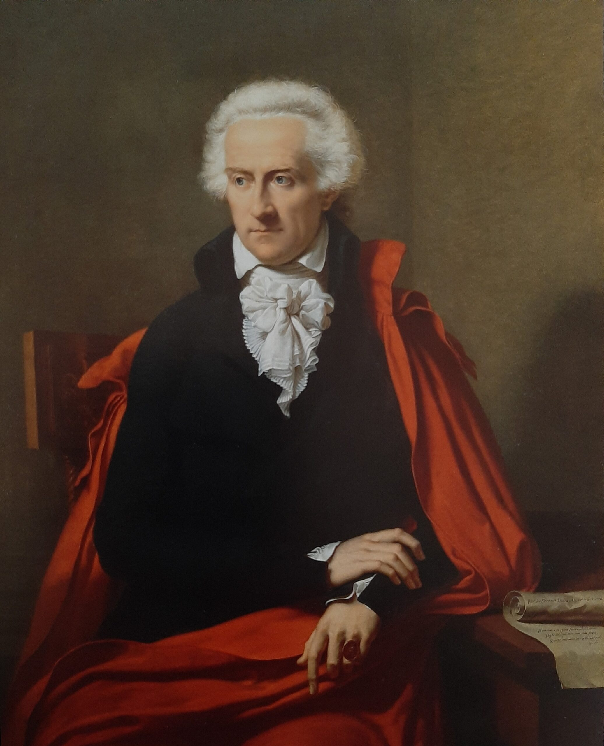 Portrait of Count Vittorio Alfieri (1749-1803), italian dramatist, poet and writer.